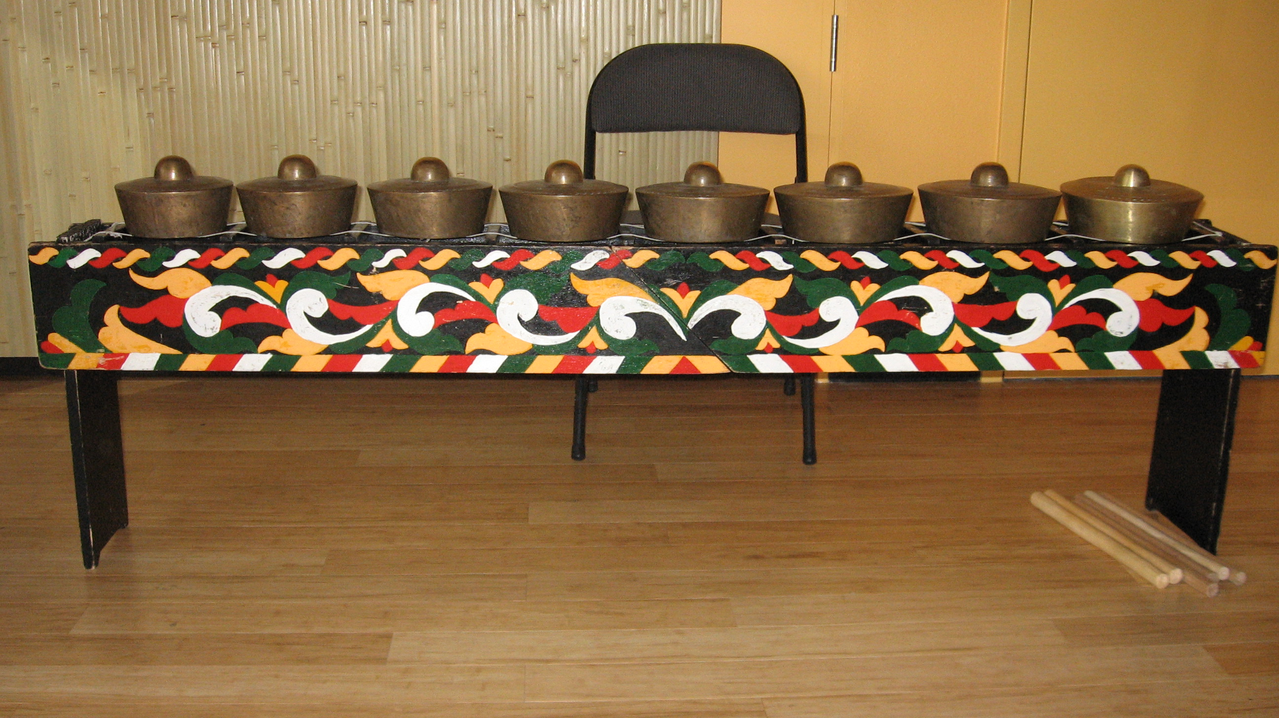 The eight Philippine horizontally laid, knobbed gongs known as the kulintang used as a main melodic instrument in the kulintang ensemble.